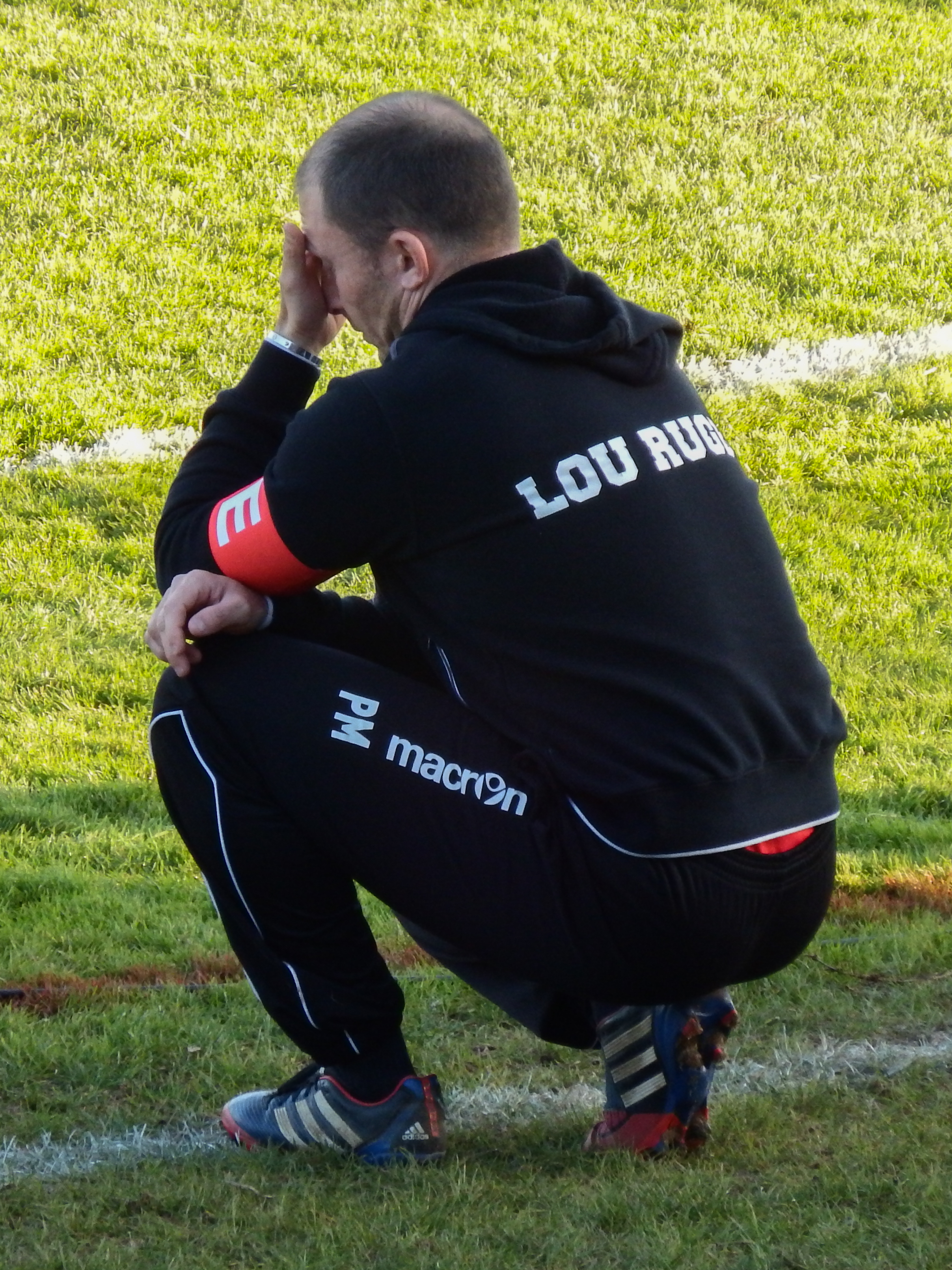 Q20724161 — 13 December 2015, Stade Maurice Boyau. Match between: US Dax — Lyon OU